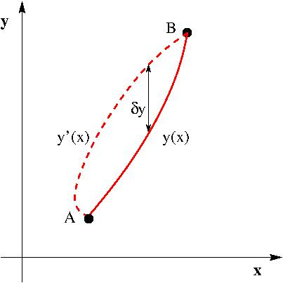 Basic variation in variational calculation